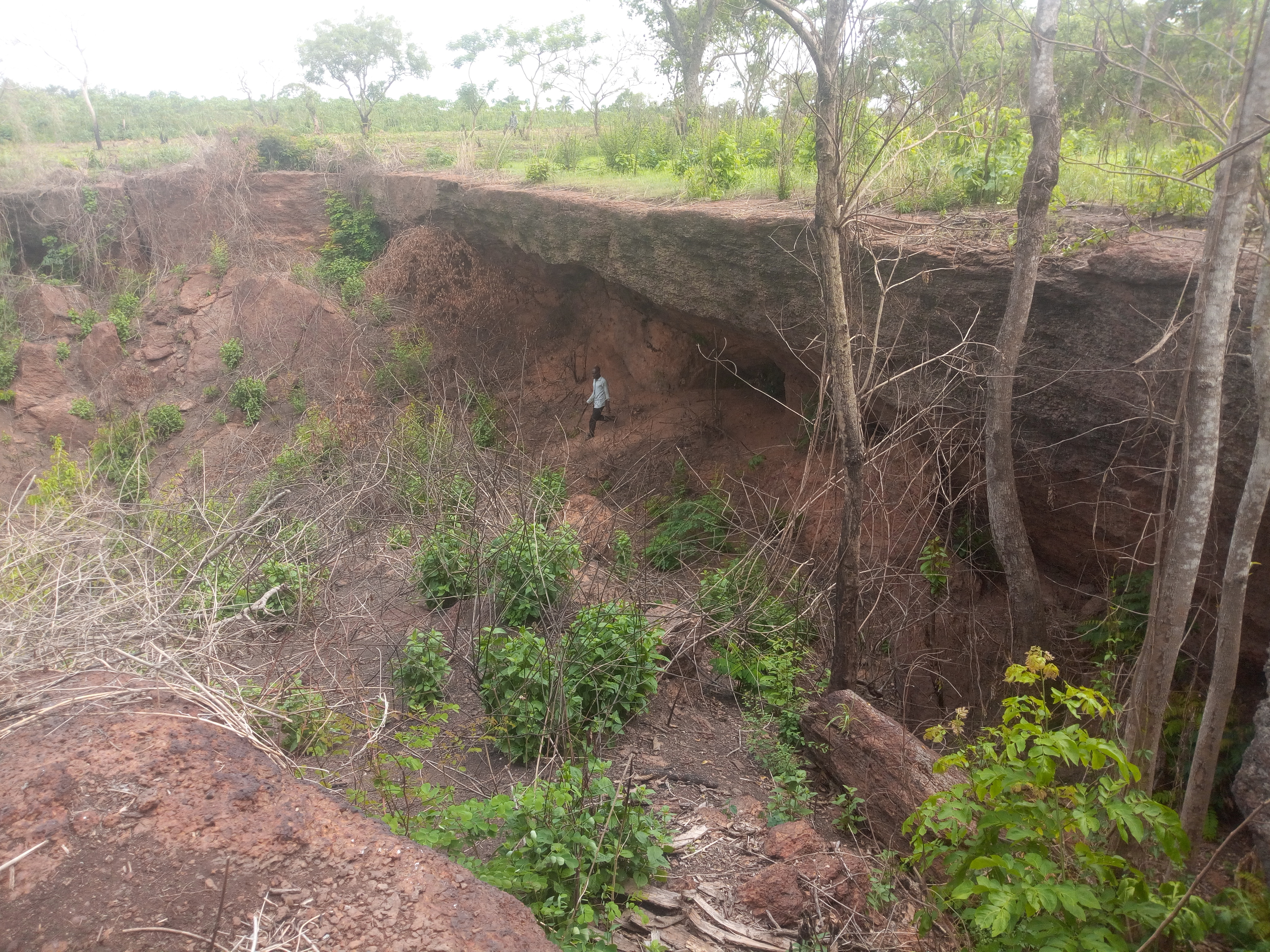 This photo show the beginning of Lama depression (the biggest drift or Valley in Southern east of Benin) named Kplokedji at Ewe Ketou